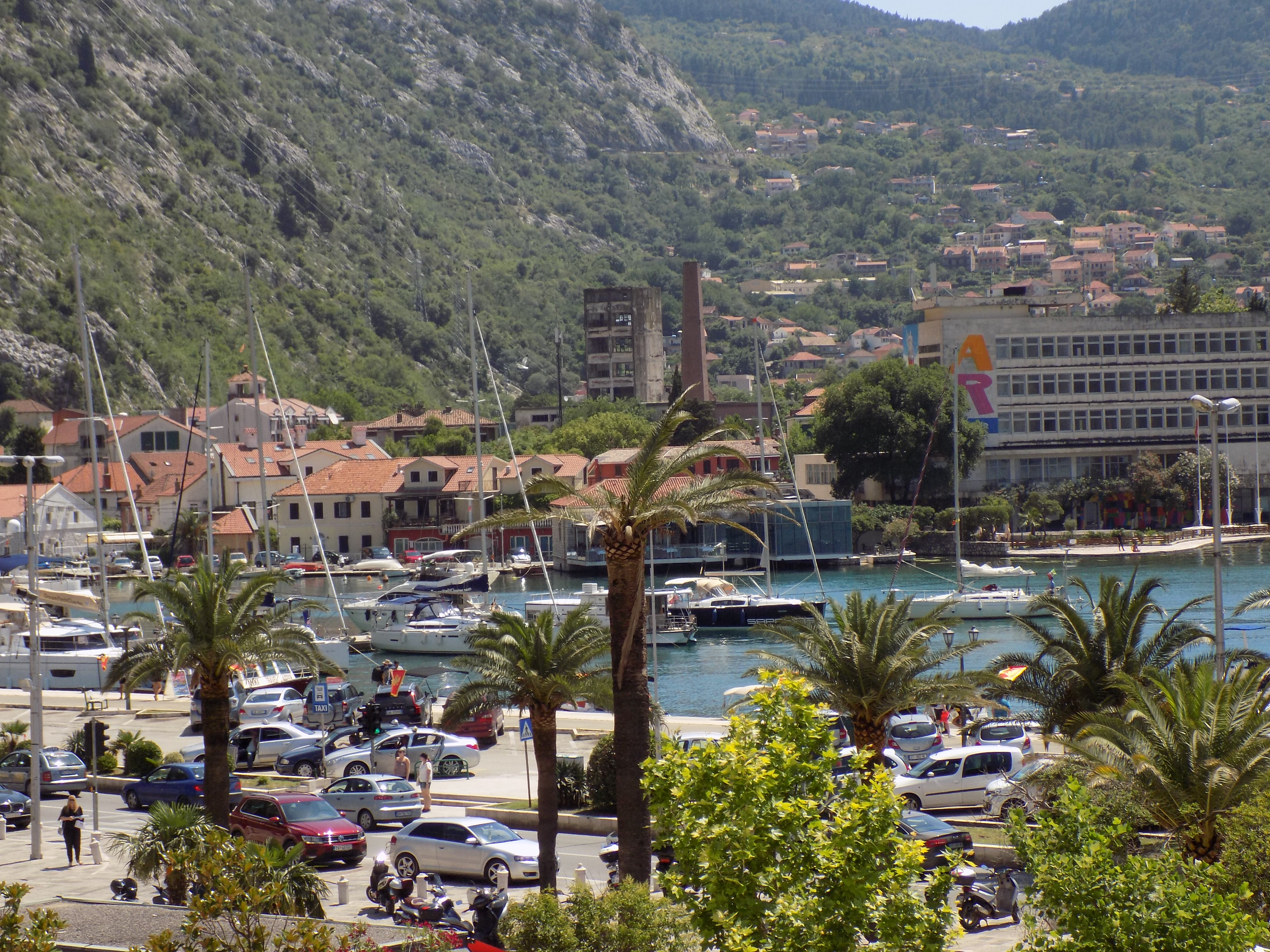 Marina in Kotor